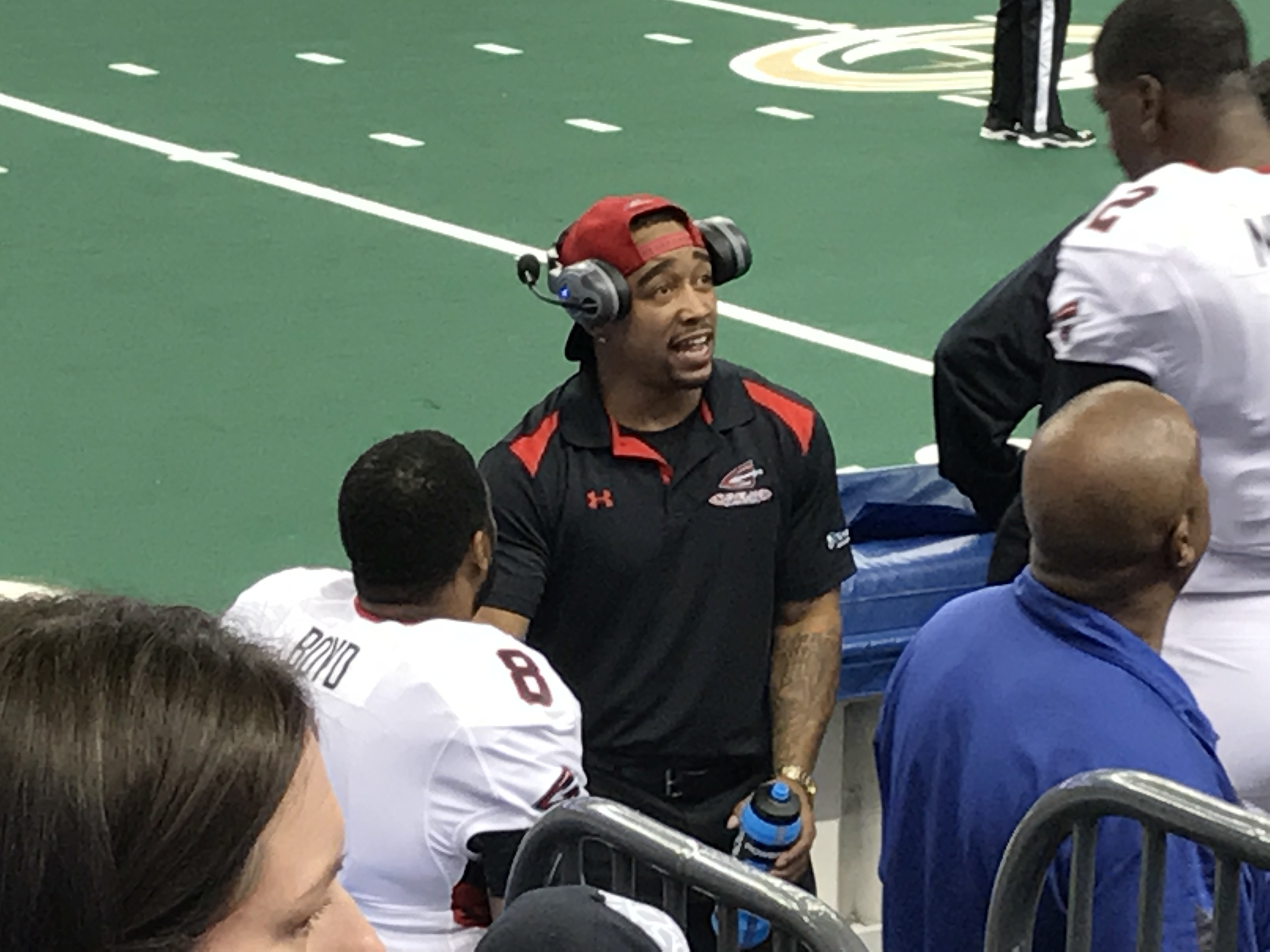 Dominic Jones talking with Shane Boyd and Arvell Nelson